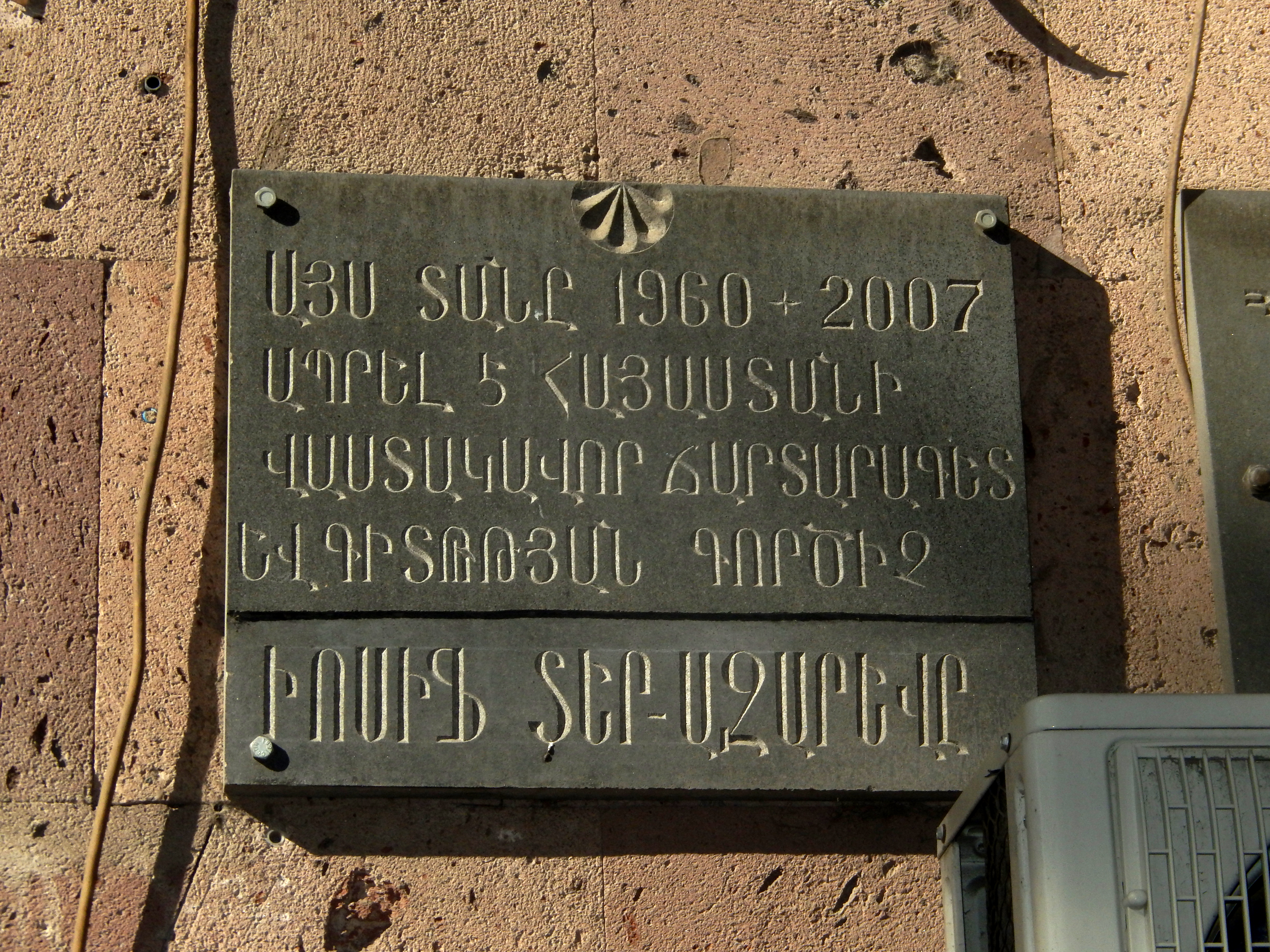 Iosif Ter-Azarev's plaque on Baghramyan 56, Yerevan